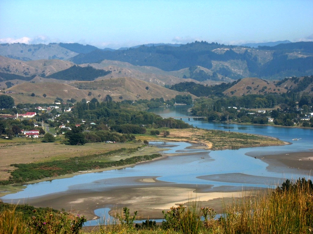 View of Tolaga Bay, New Zealand.